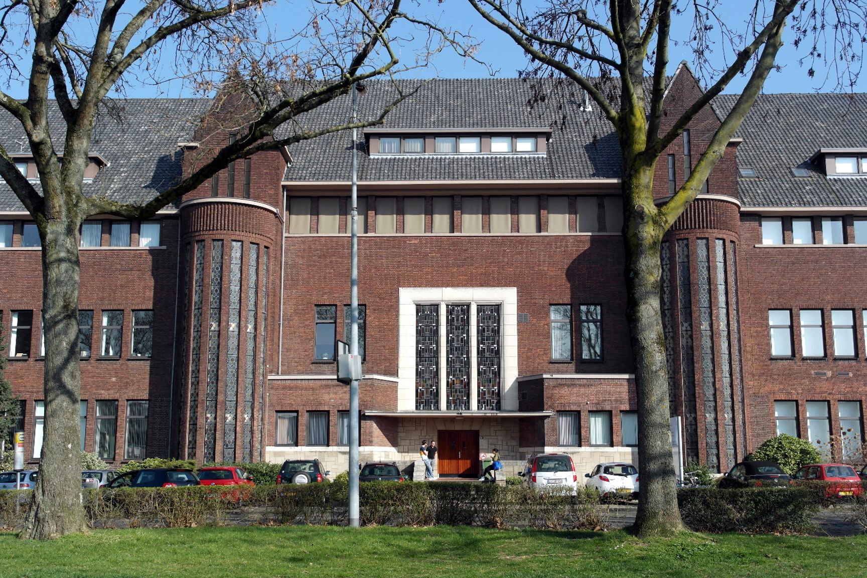 Maastricht, the Netherlands. View from Brusselseweg of the PABO teachers training college, formerly called Saint Mary Immaculata School.